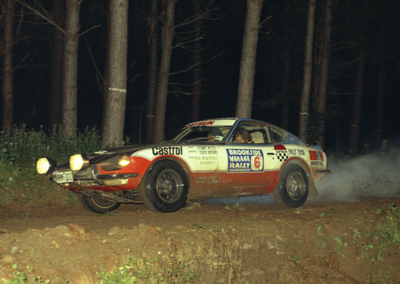 Stewart McLeod and Adrian Mortimer in the Datsun 240Z at the 1974 Warana Rally